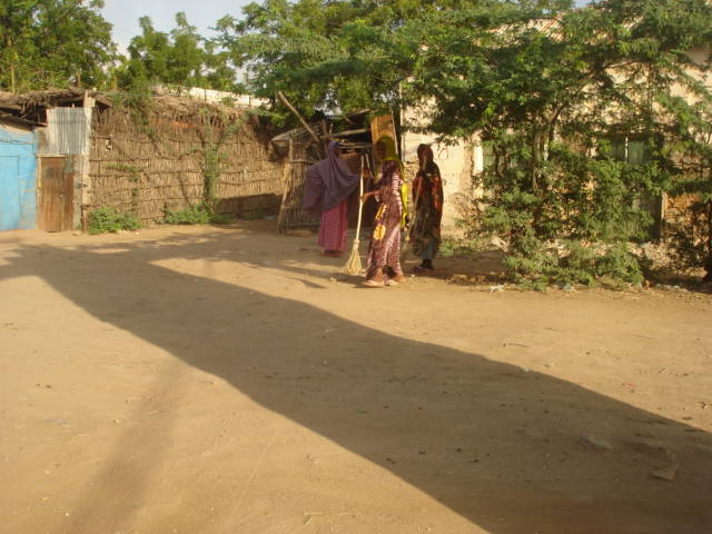 Bardera Street Cleaning by Bardera Water and Sanitation Authority, Bardera/Baardheeere, Somalia